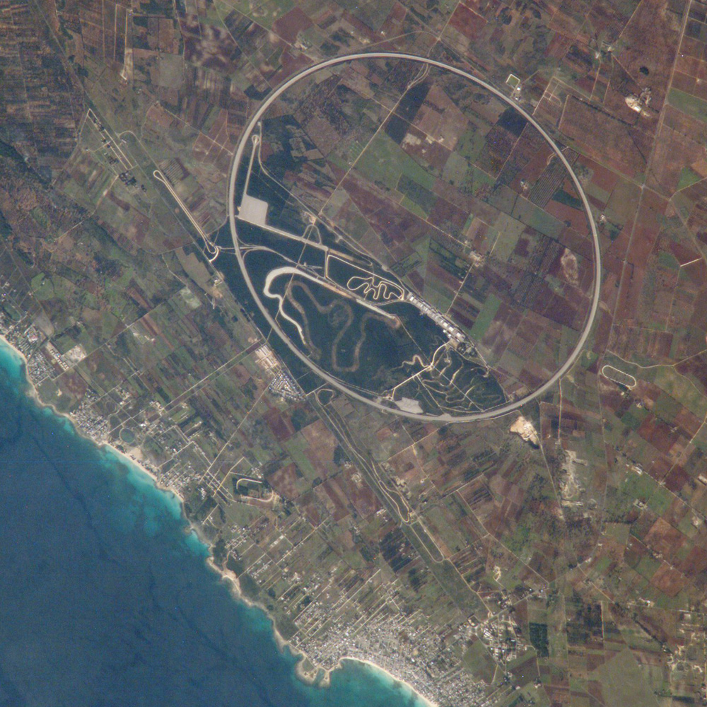 Picture from space of Nardò ring in Nardò, Italy. Astronaut photograph ISS014-E-7578 taken on board the ISS with a Kodak 760C and 800mm lens.